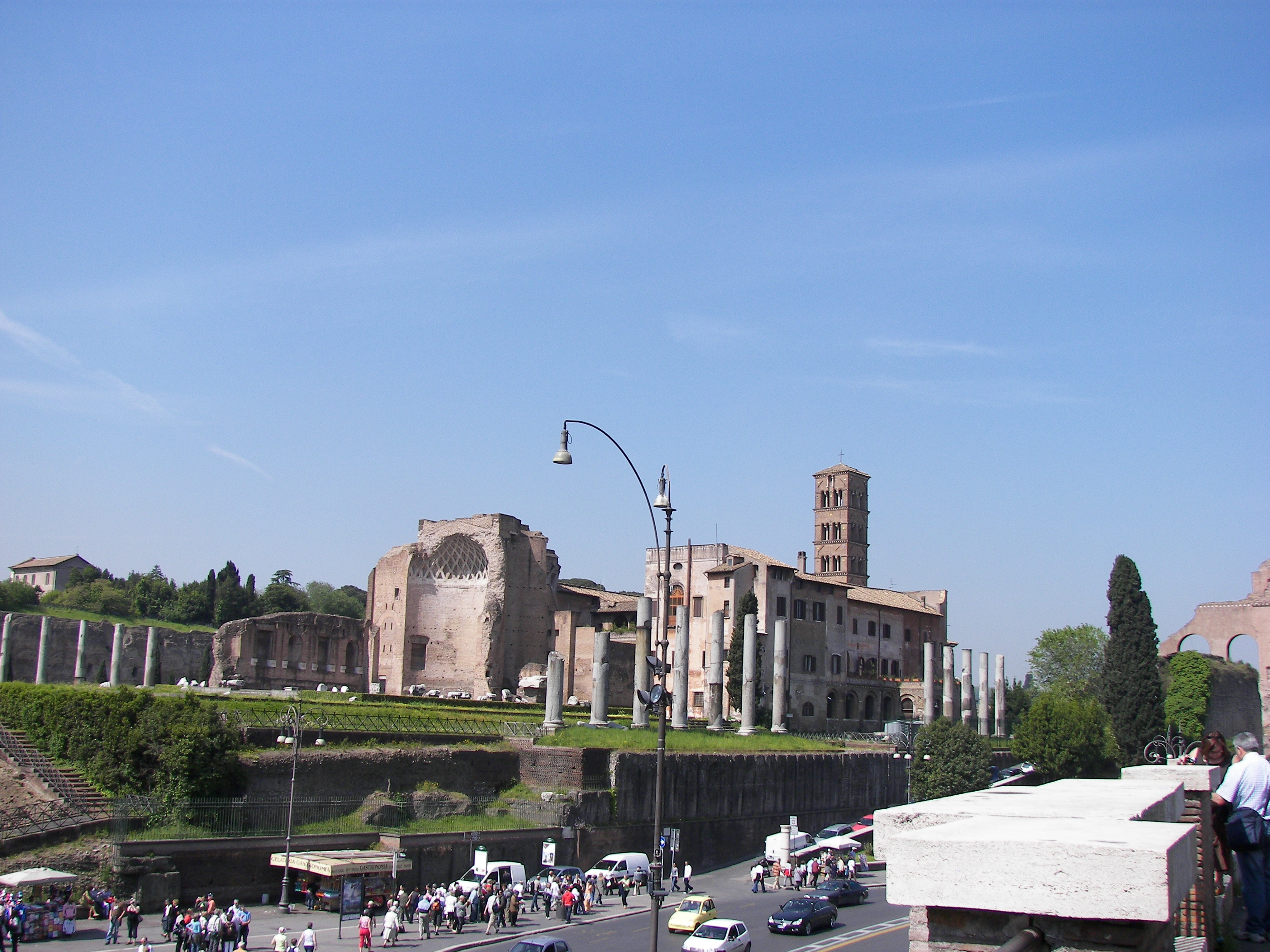 The Temple of Venus in Rome with the Santa Francesca Romana at center-right.